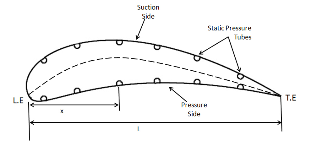 Cascade Theory